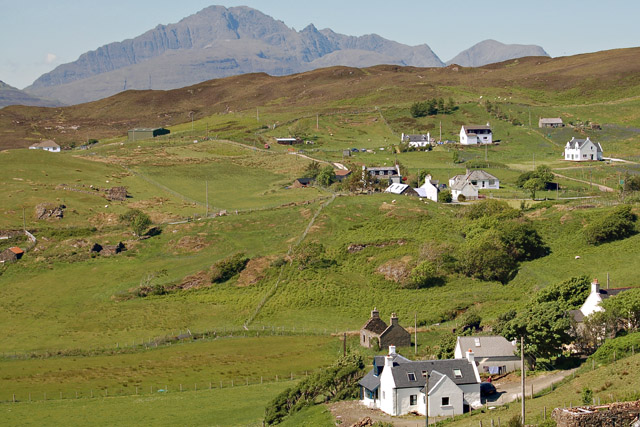 Tarskavaig